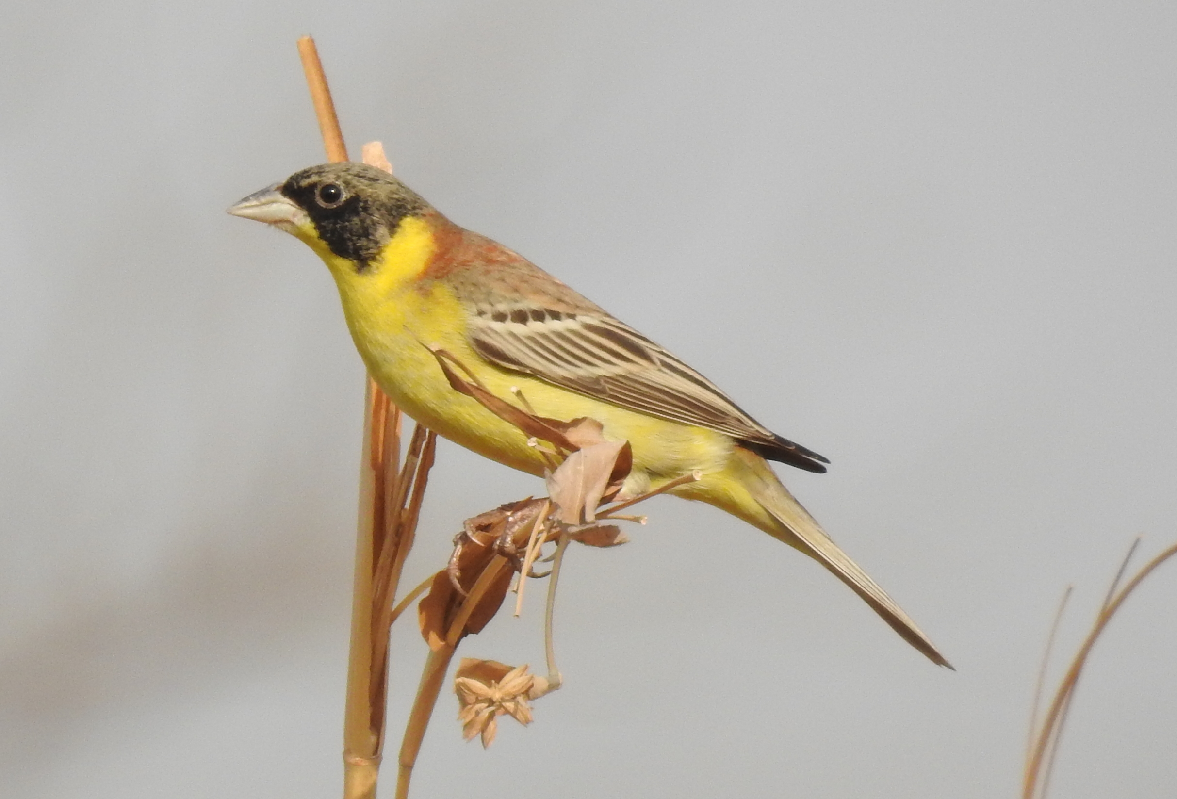 Black-headed Bunting Emberiza melanocephala male. Photographed near Dombivli, dist. Thane, Maharashtra, India.